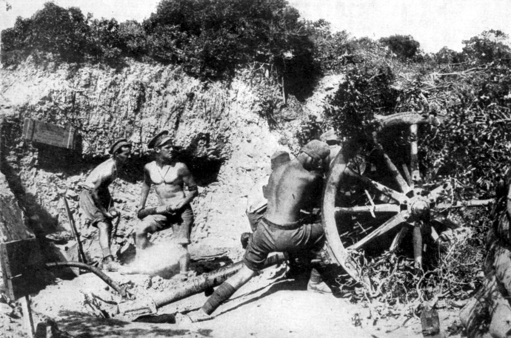 Australian gunners of the 9th Field Battery operating the Number 4 18-pounder field gun at M'Cay's Hill, Anzac, 19 May 1915, during the Battle of Gallipoli.9th Field Battery were in 3rd Field Artillery Brigade, 1st Division.